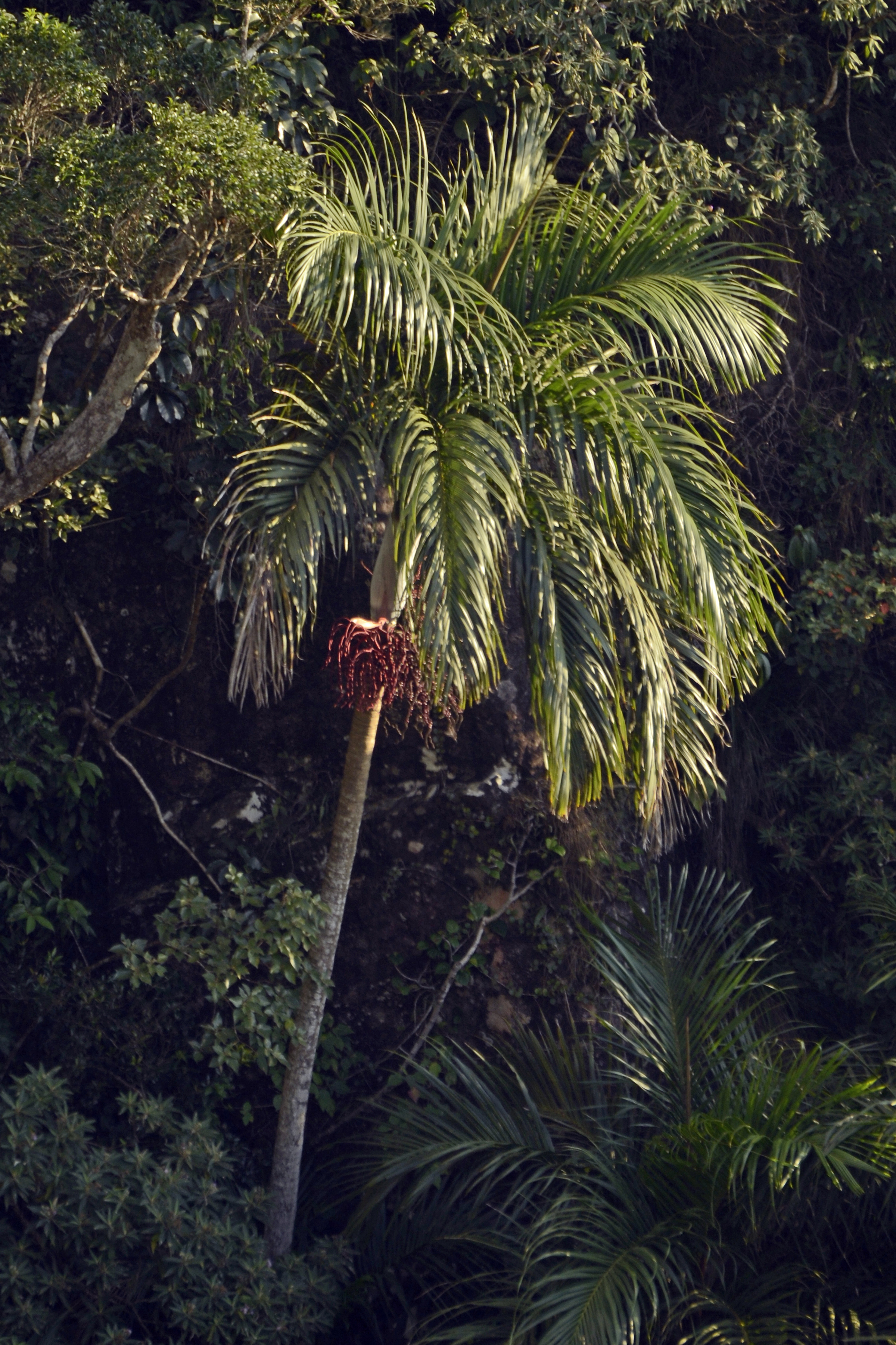 Single Bentinckia condapanna with fruits in southern Western Ghats